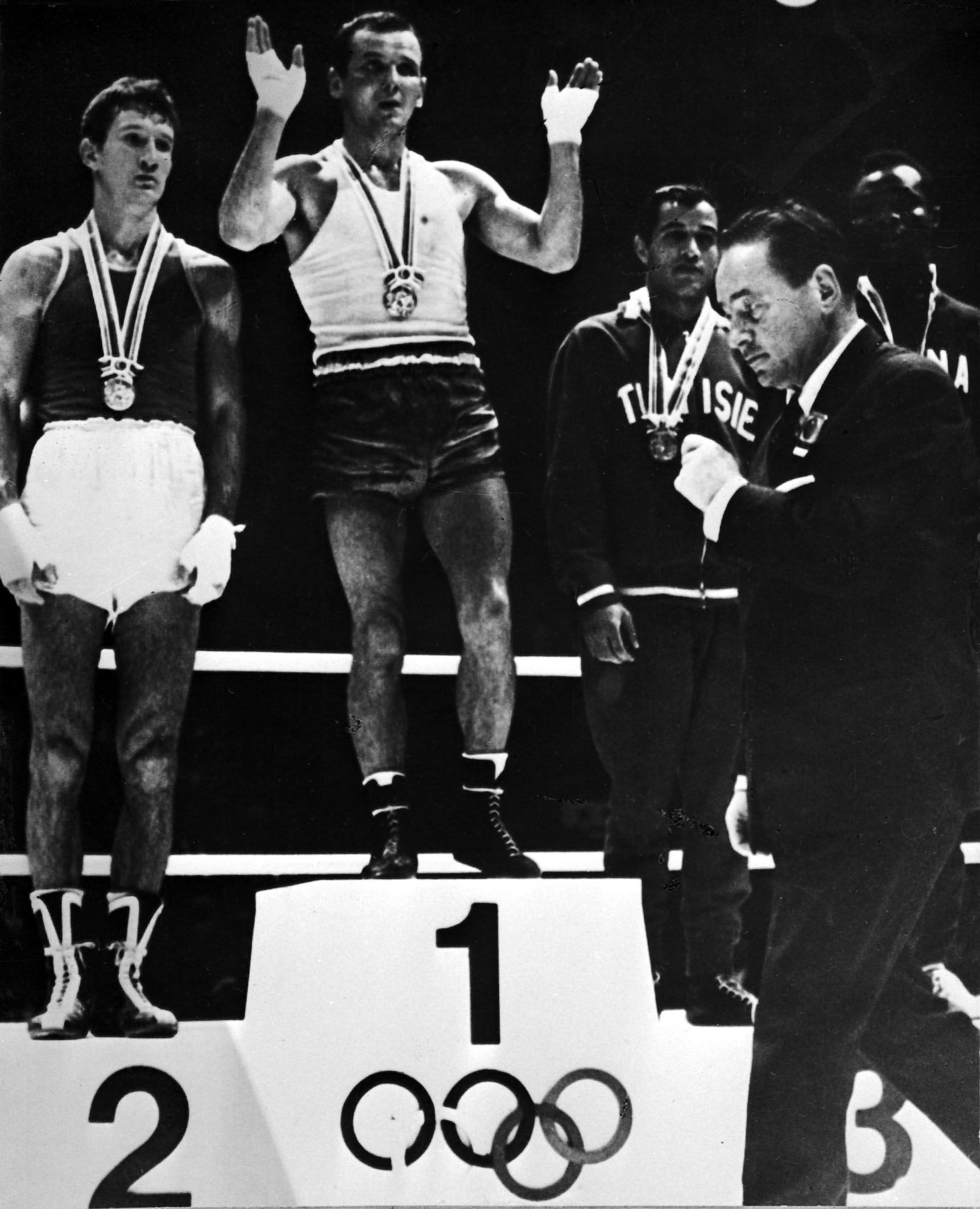 Boxing light-welterweight podium 1964 Olympics